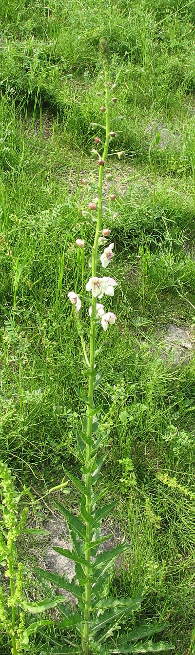 Photograph of Verbascum blattaria, taken in Machida city, Tokyo, Japan.